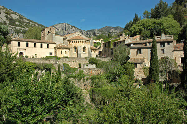 Saint-Guilhem-le-Désert, abbey. France